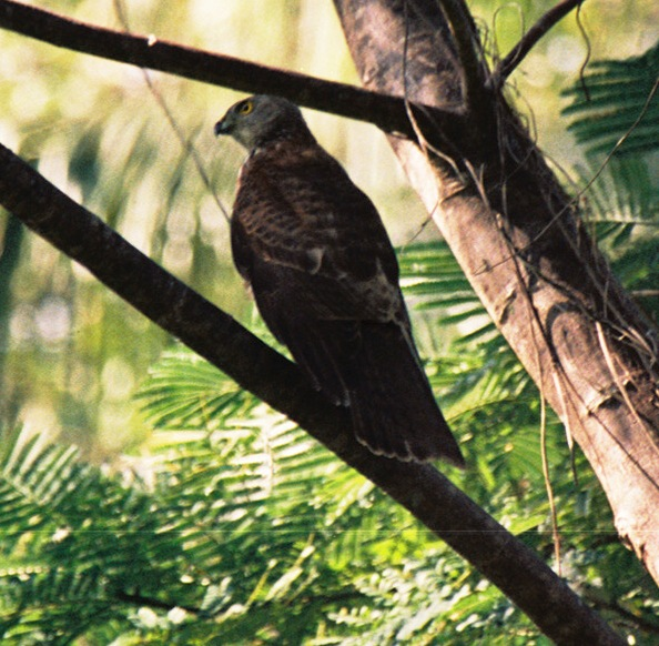 Fiji Goshawk Accipiter rufitorques Taken by Duncan Wright on Kadavu in Fiji.